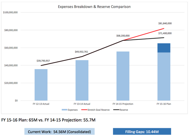 Wikimedia Foundation Annual Plan Img 3